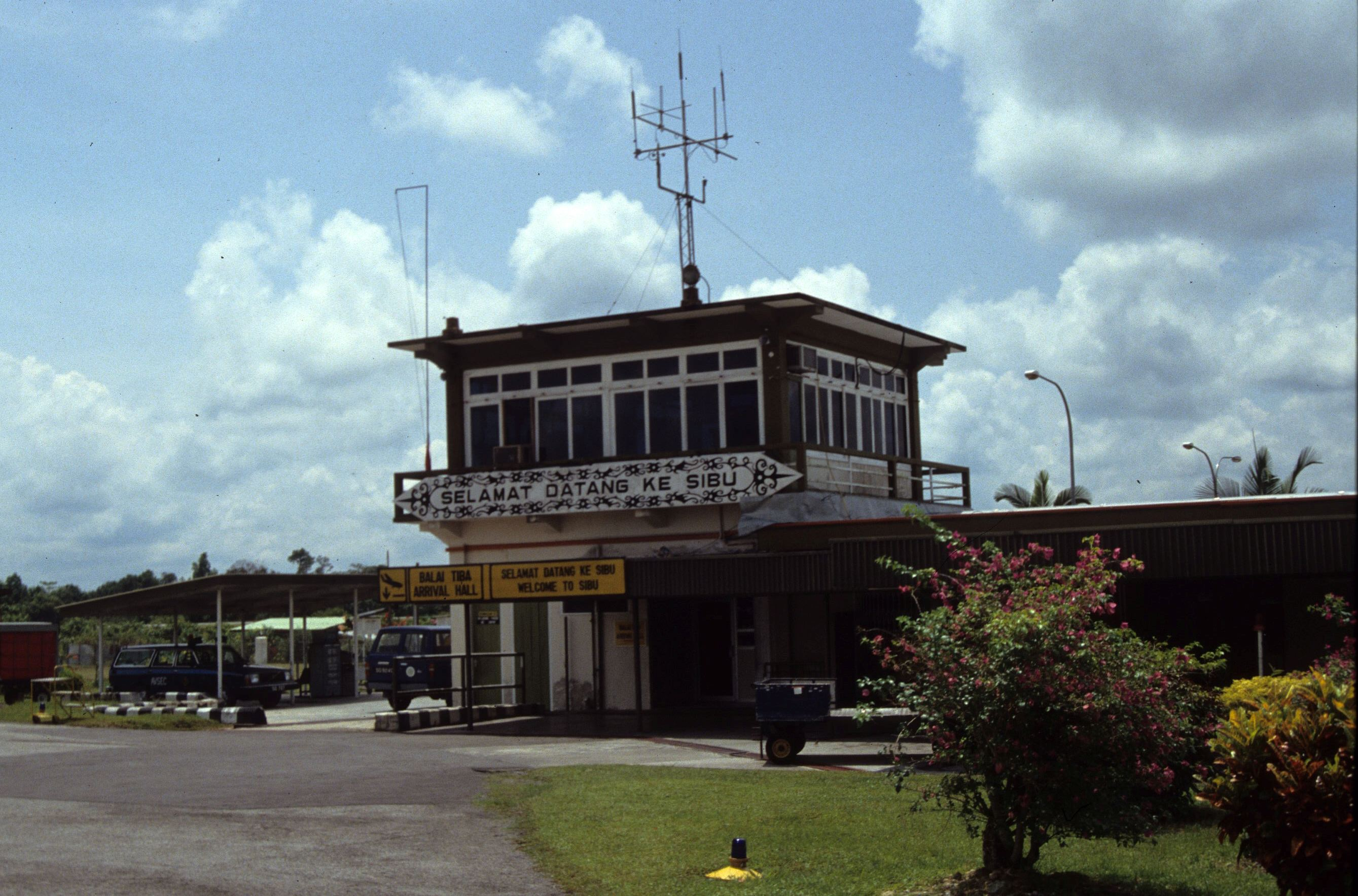 The Sibu Airport control tower back in 1992, located at Jalan Teku, Sibu. The airport was later demolished to make way for United College Sarawak.